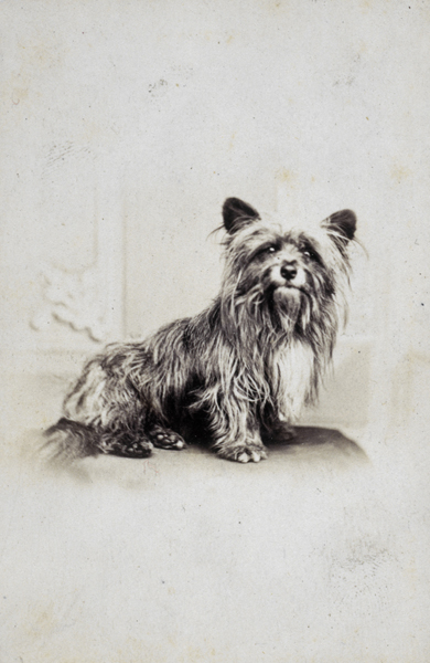 Unknown about 1865 Accession no. PGP R 831 Medium: albumen print Original size: 9.1 x 5.9 cm Credit Gift of Mrs. Riddell in memory of Peter Fletcher Riddell 1985 For more information please select here.[dead link]